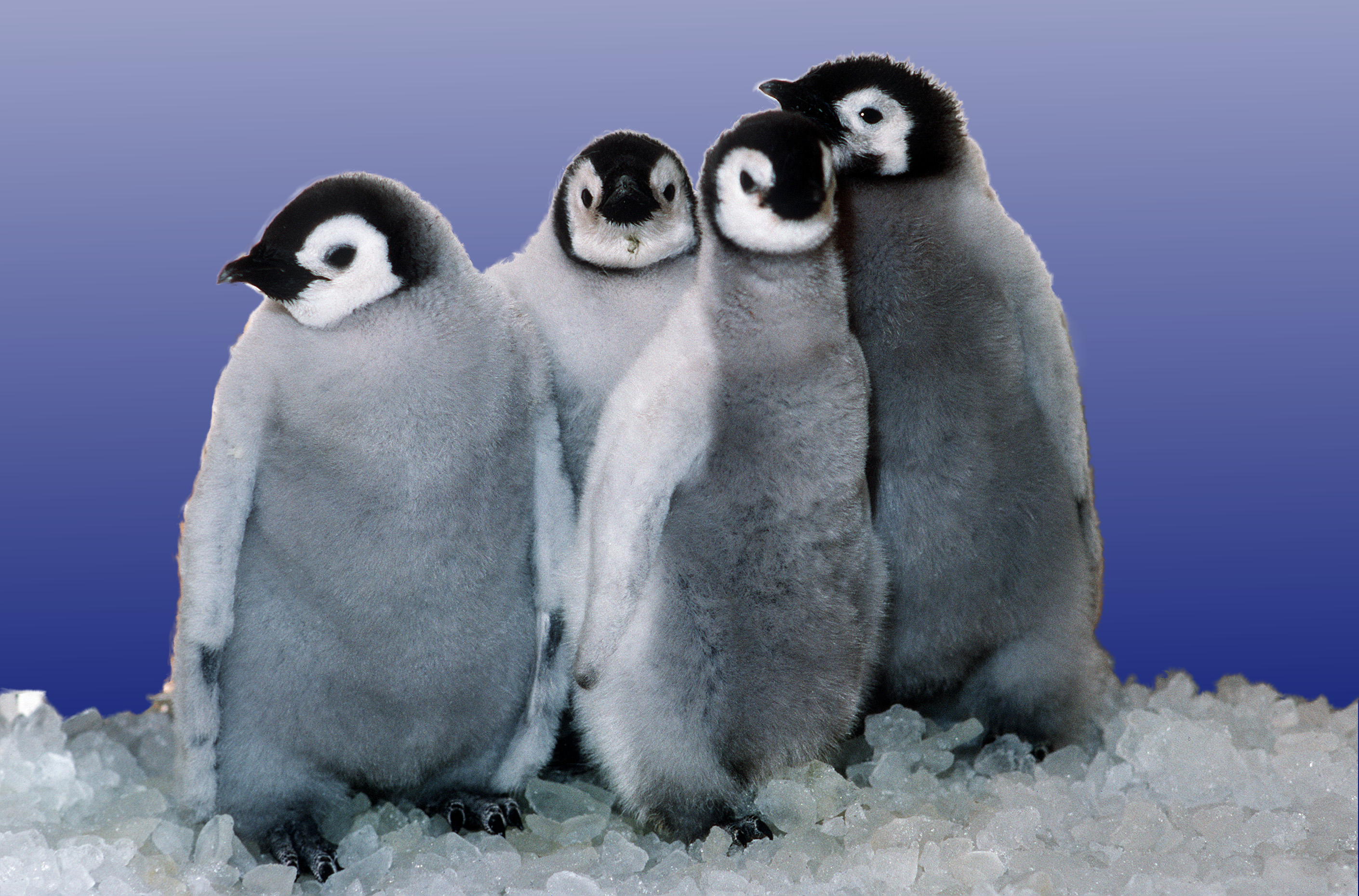 Four Emperor Penguin chicks huddle together in a quarantine area at SeaWorld. The penguins were flown to the U.S. from McMurdo Station on Ross Island in Antarctica, to be part of a National Science Foundation study. Location: San Diego, California (USA)